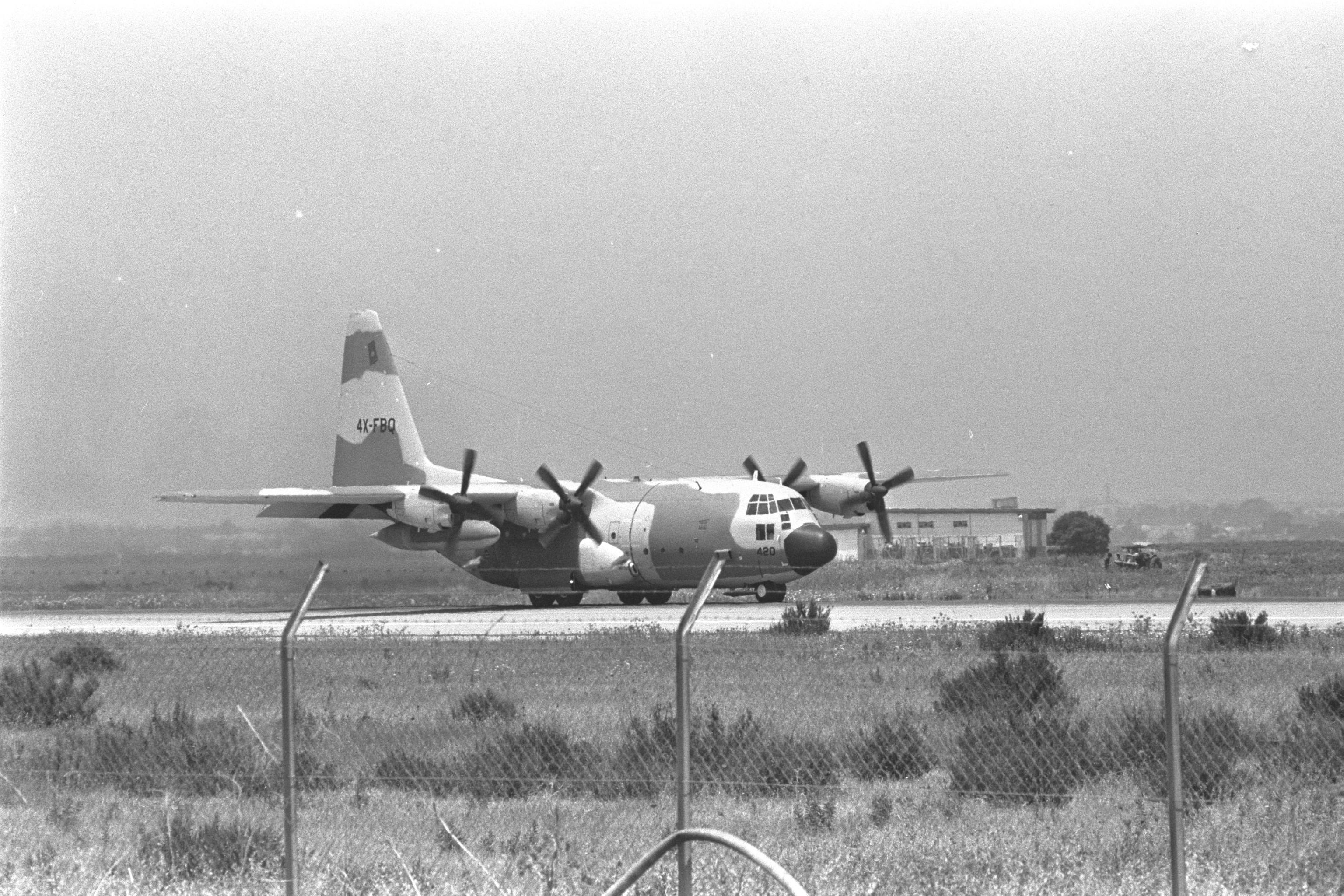 One of the Lockheed C-130 Hercules transport planes lands at Ben-Gurion Airport carrying hijacked Air France passengers rescued in the IDF Operation Entebbe. Photo: MOSHE MILNER, 07/04/1976